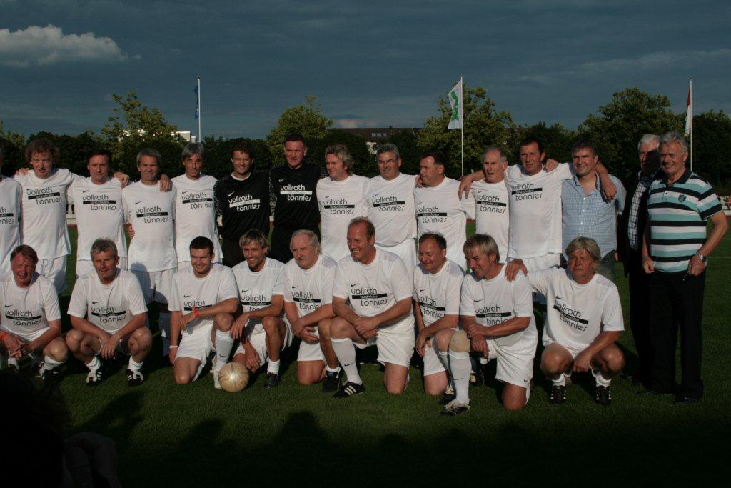 Karlsruher SC Allstars at the benefit match KSC Allstars versus Eintracht Frankfurt Altstars on July, 30th 2010 in Karlsruhe